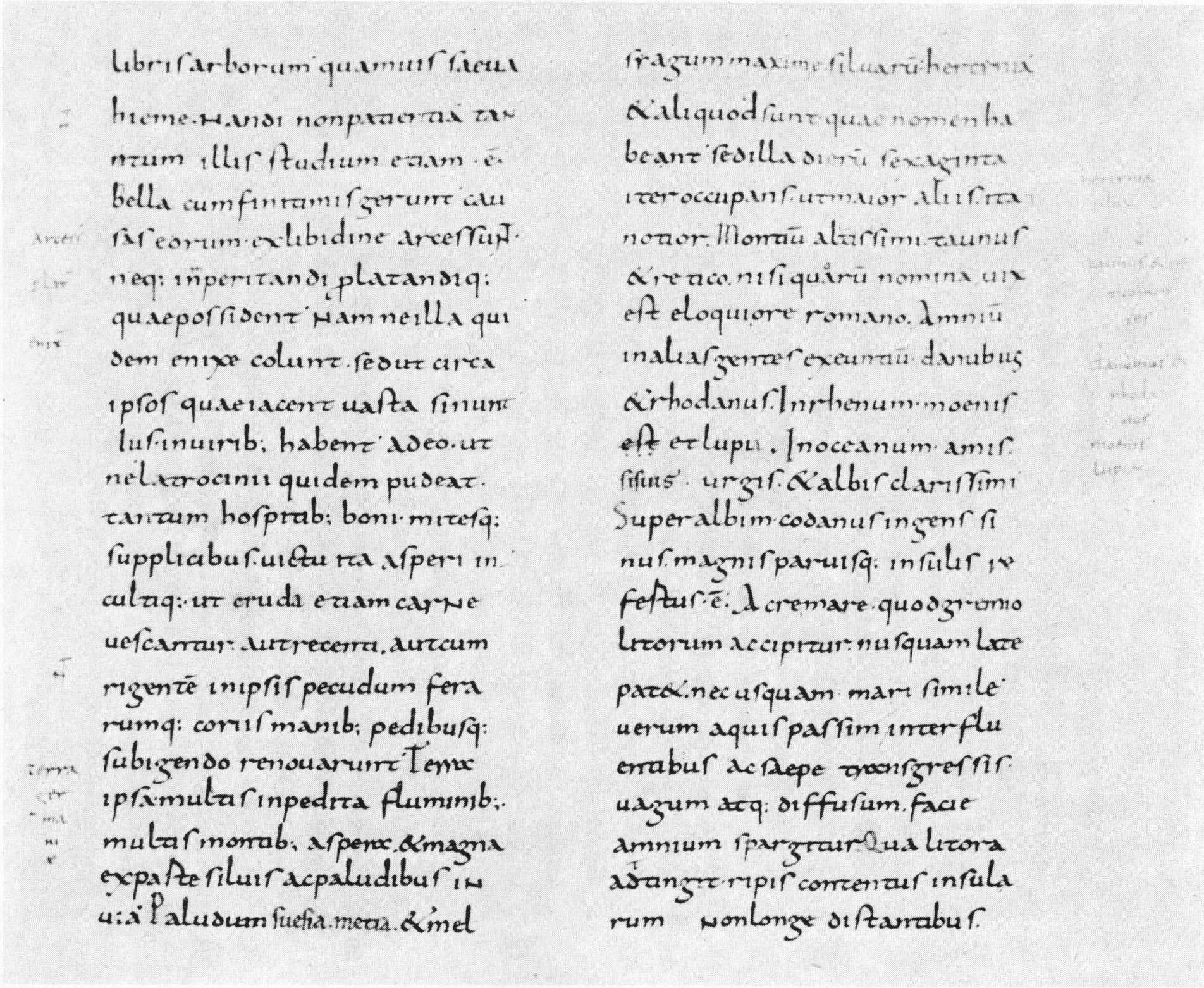 Pomponius Mela, Chorographia, in ms. Biblioteca Apostolica Vaticana, Vaticanus lat. 4929.